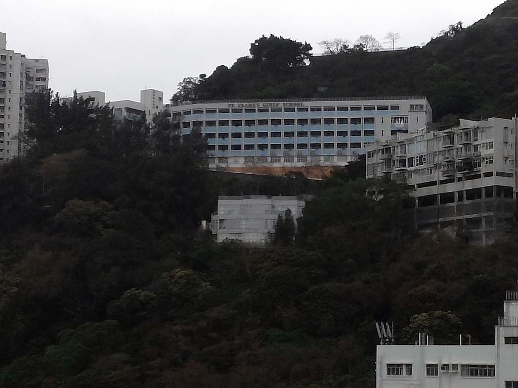 St. Clare's Girls' School